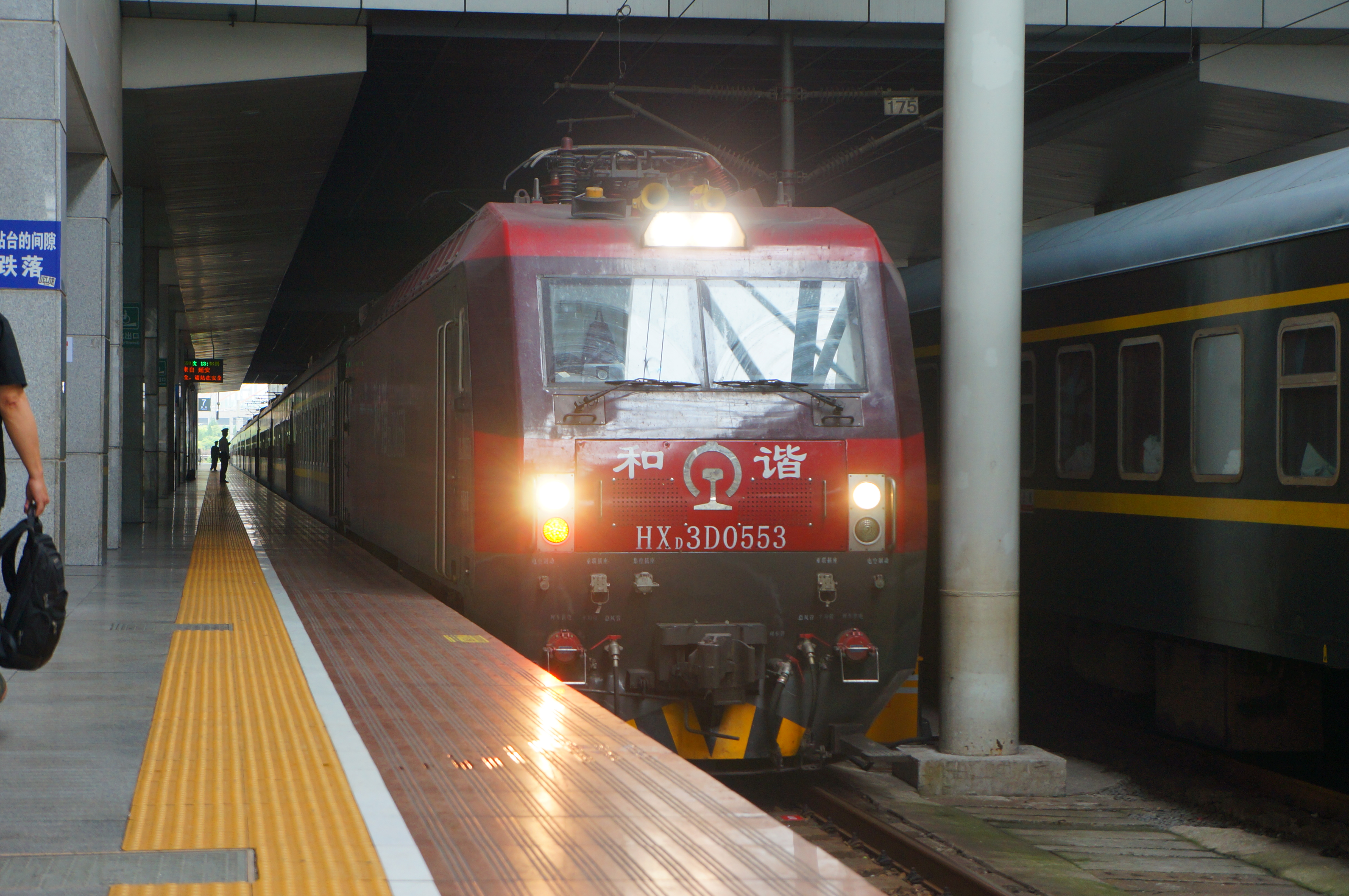 201705 HXD3D-0553 hauls K559 from Yan'an arrives at Shanghai Station